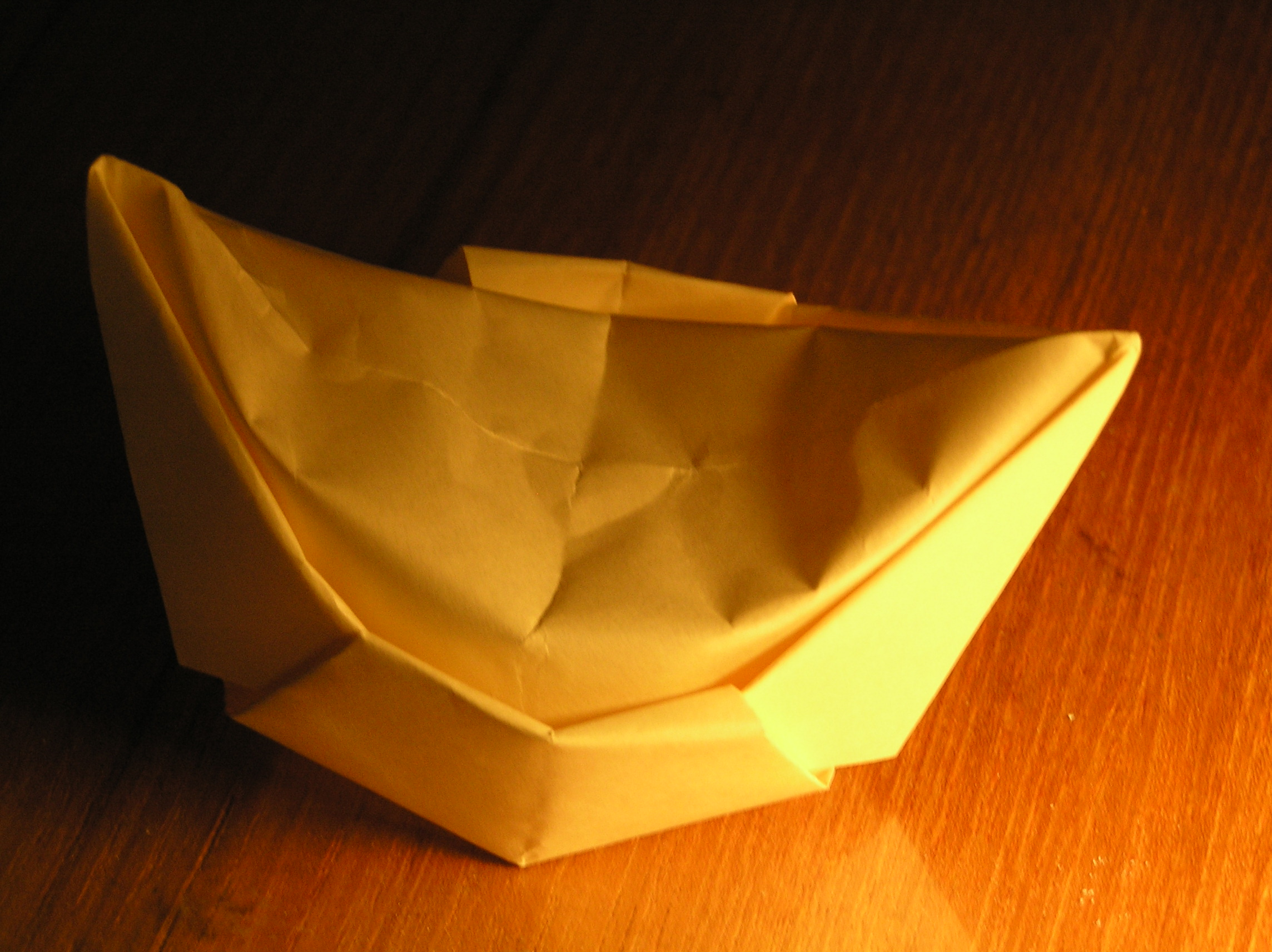 Chinese paper fold sycee. These can be burned at ancestors' graves, along with imitation paper money, as an offering.